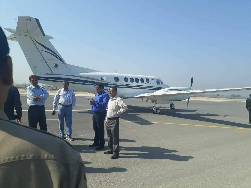 VT-UPR, Super King Air B-200 of Uttar Pradesh Government at Kanpur Dehat's Marhamtabad Airport (2018)